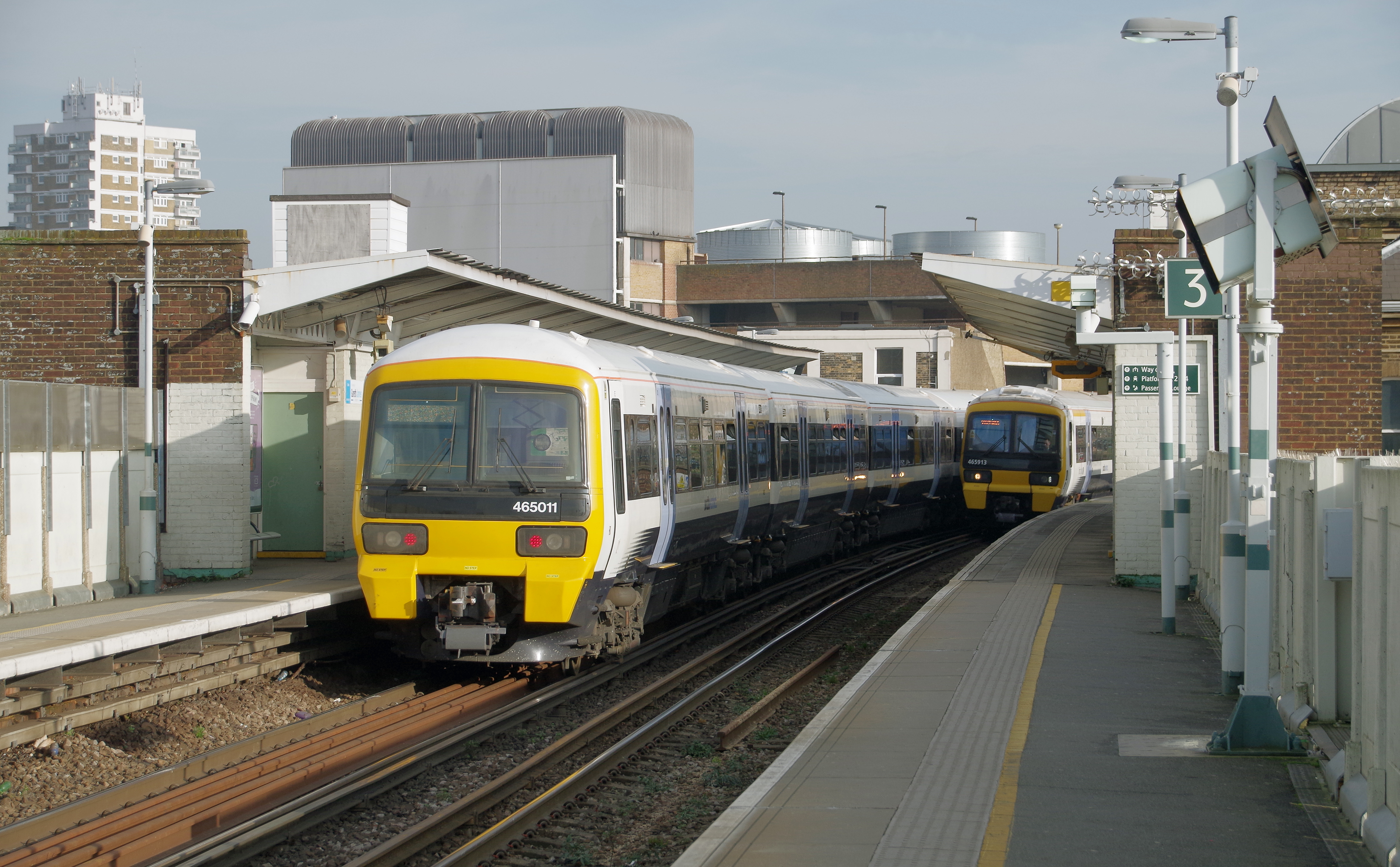 Southeastern class 465 "Networker" EMU 465011 departs Peckham Rye railway station, operating a service to Sevenoaks from Victoria. Meanwhile 465913 approaches with a Victoria service.